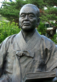 Statue of founder Choi Myeong-jae (최명재) sits on the campus grounds, Korean Minjok Leadership Academy